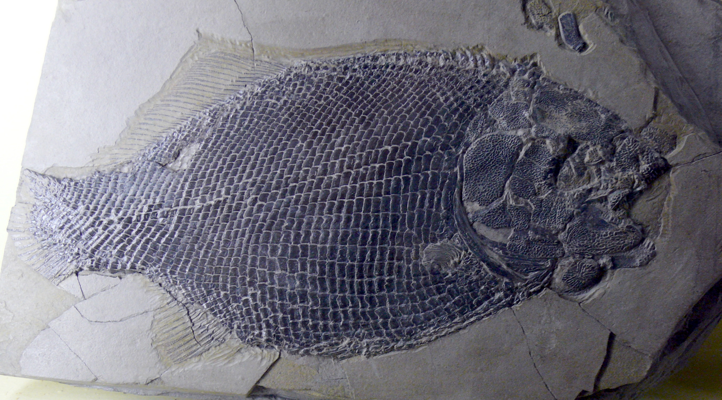 Dapedium caclatus (jr syn: Dapedius caclatus) from the Jura, Boll, Württemberg, Germany